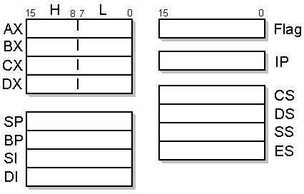 Registers of the 8086 CPU